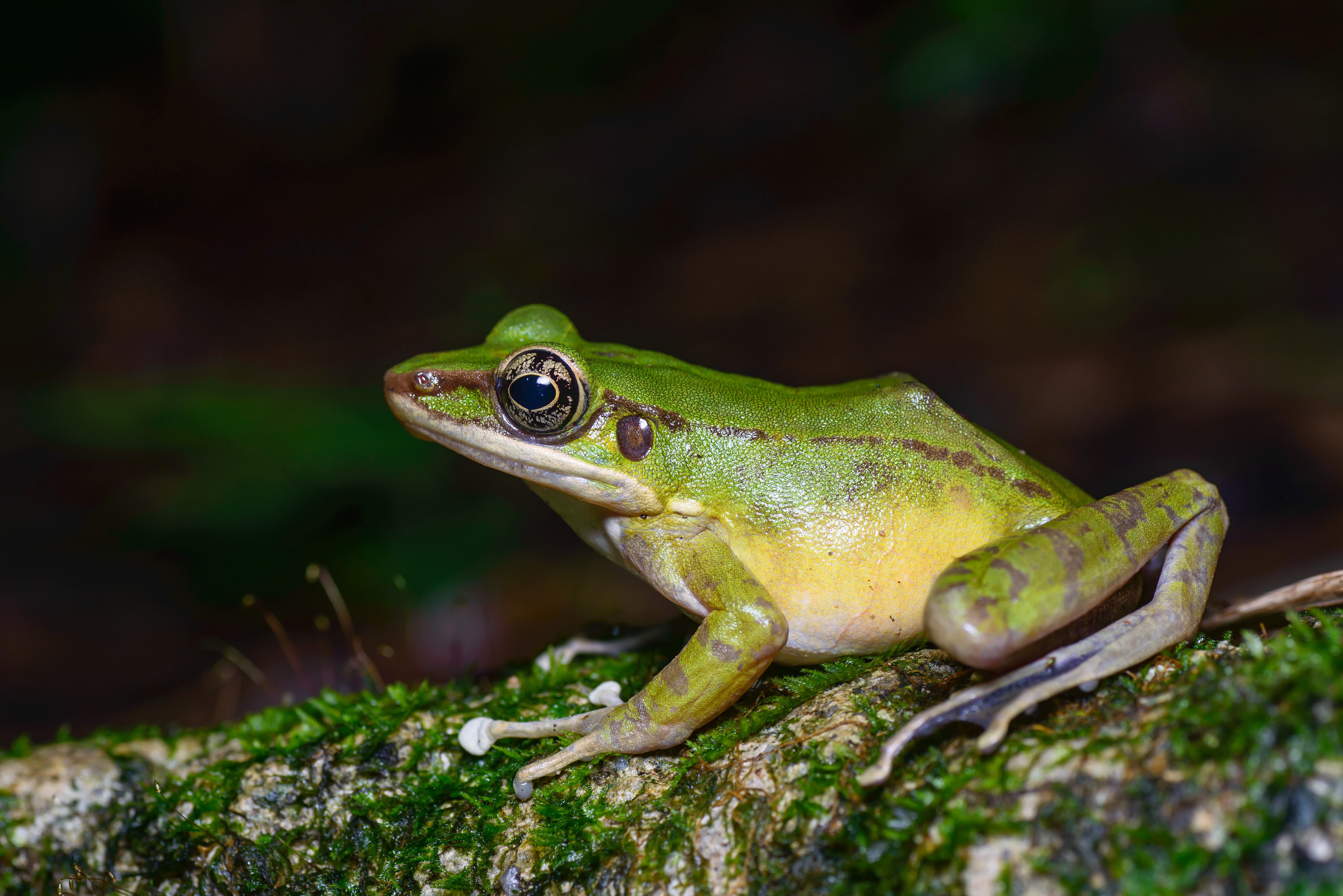 Odorrana hosii, Hose's frog - Khao Sok National Park. Photo by Thai National Parks